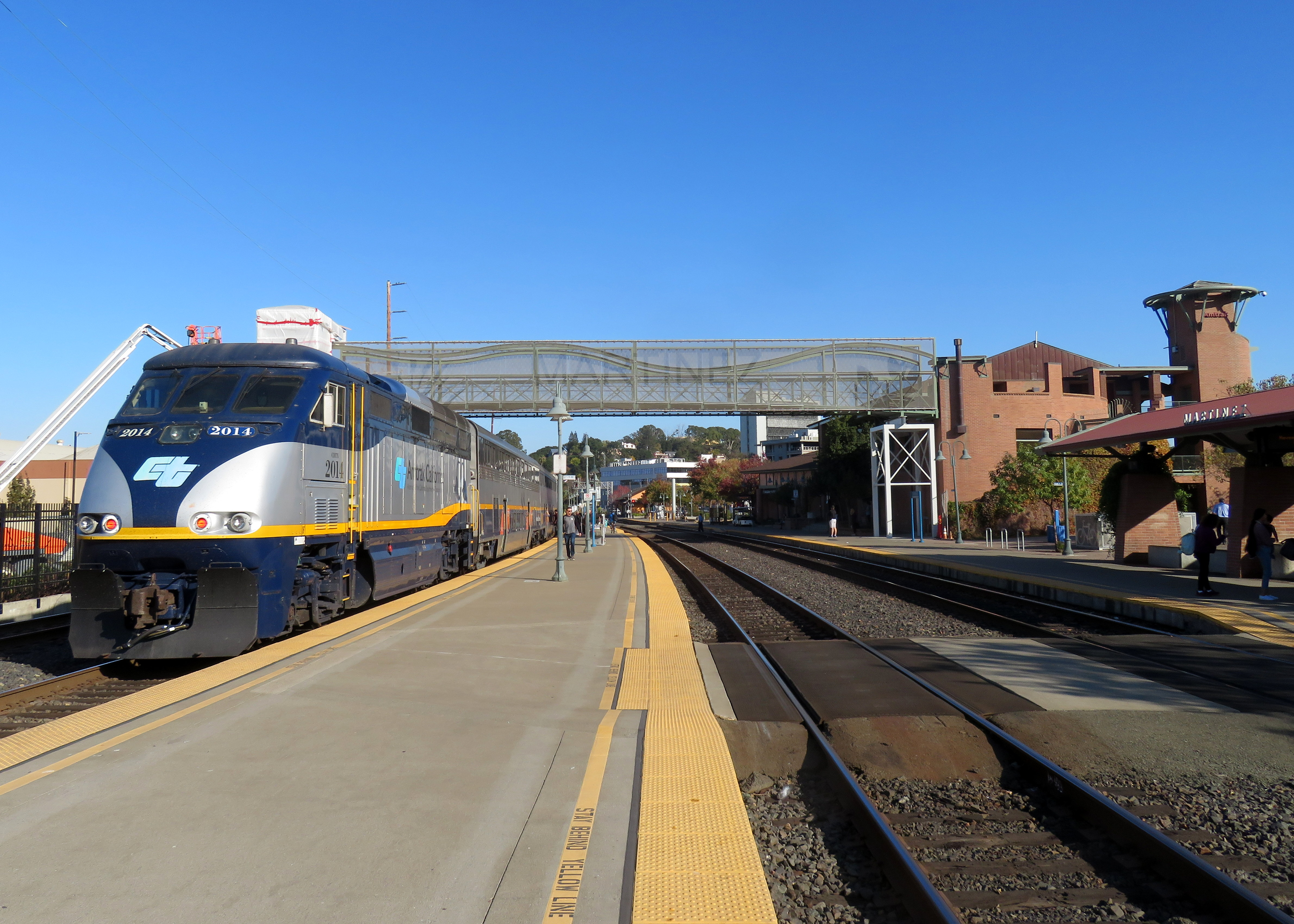 A northbound Capitol Corridor train at Martinez station in November 2019